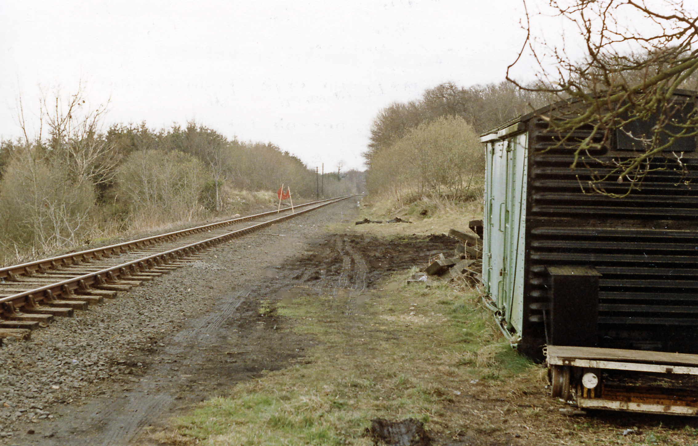 Site of Constable Burton station, 1989. View eastward, towards Northallerton: ex-NER Wensleydale line, Northallerton - Hawes, thence ex-Midland on to Garsdale. The station was closed to passengers from 26/4/54 when the Wensleydale service was withdrawn, but freight continued, calling at Constable Burton until 14/10/57, until 27/4/64 when it ceased west of Redmire. The route has survived Northallerton - Redmire, for quarry traffic until 1982, then for conveying Army tanks etc. for Catterick Garrison, being maintained by the Ministry of Defence until 1992, when the line was sold to the heritage Wensleydale Railway Association. The latter formed an operating company in 2000 and currently is actively developing the line.